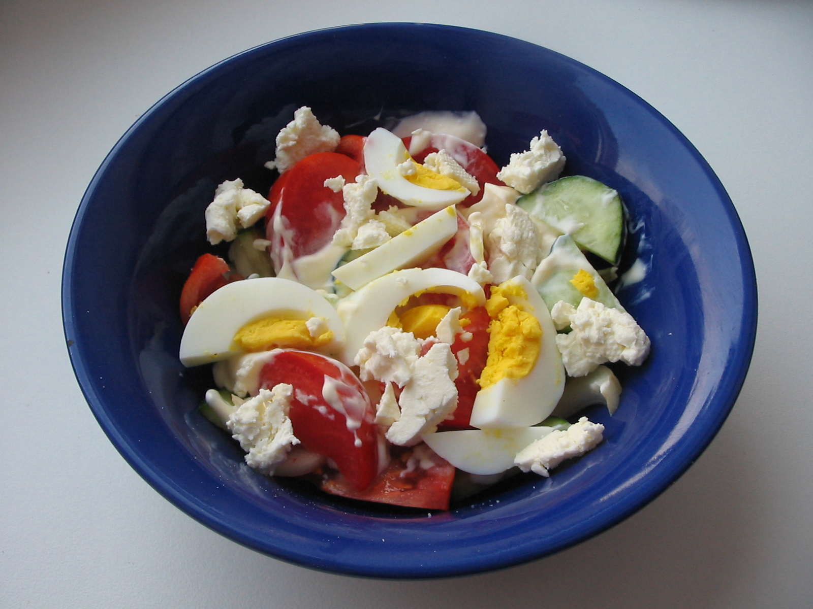 Salad including cucumbers, tomatoes, onions, eggs and bryndza with sour cream